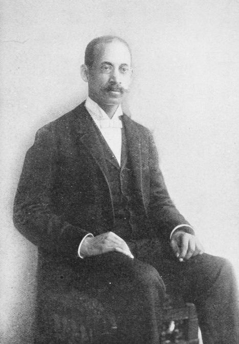 Prof. Thomas J. Calloway, A.B. : President Alcorn A. & M. college, West Side, Miss.